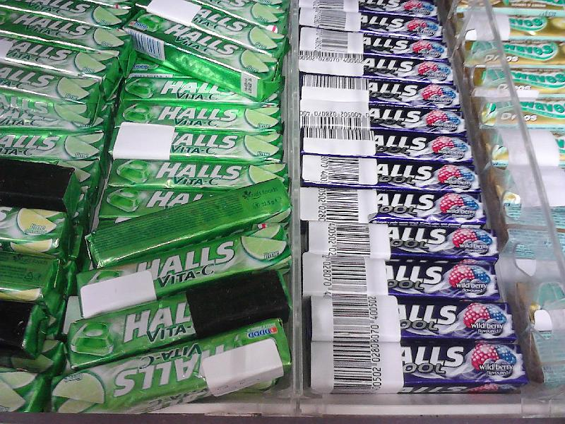 passive RFID chips on products in a store